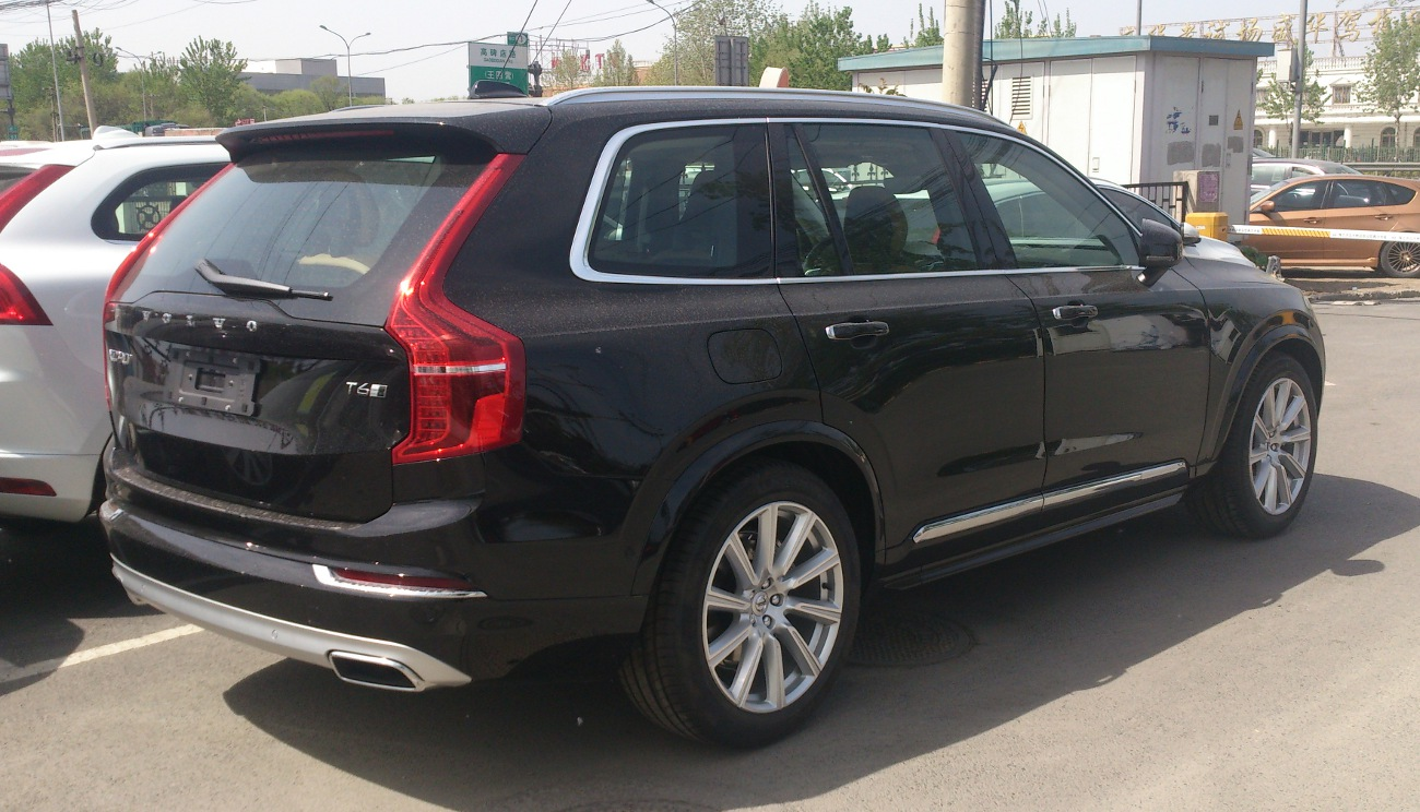 Volvo XC90 II photographed in Beijing, China.